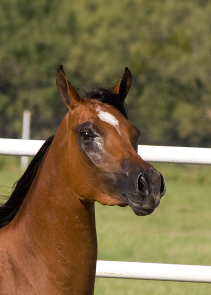 Head of an Arabian filly